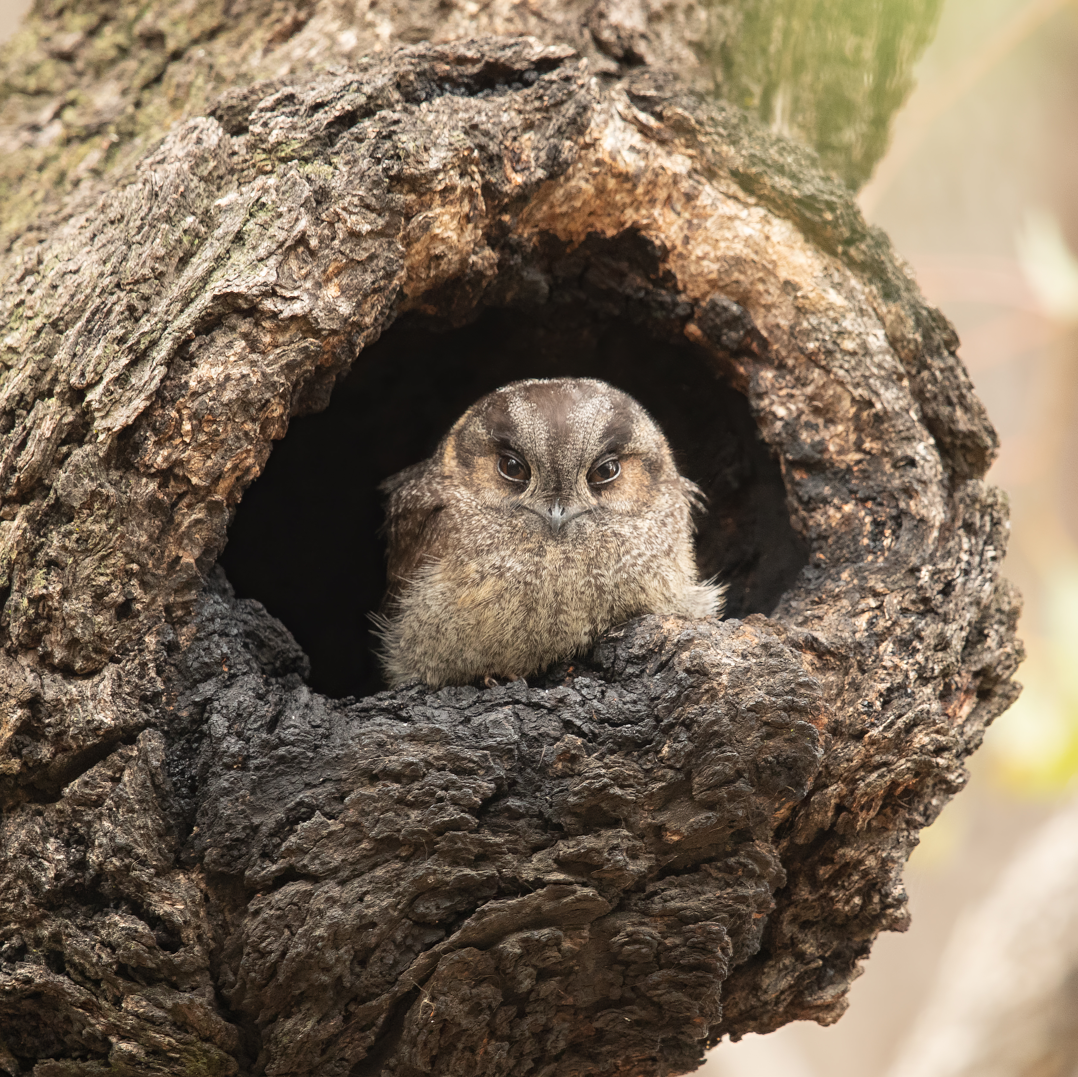 Australian Owlet-nightjar (Aegotheles chrisoptus) in nesting hollow, Castlereigh Nature Reserve, New South Wales, Australia